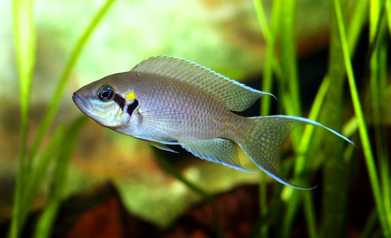 Neolamprologus brichardi